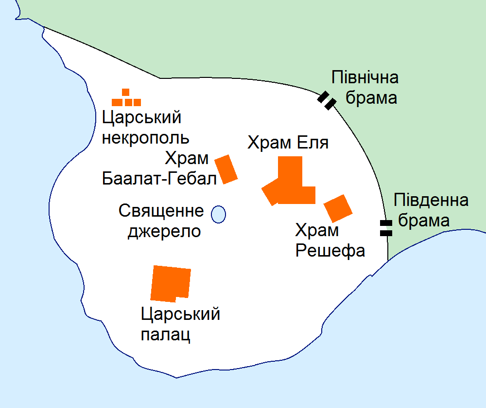 Map of Byblos